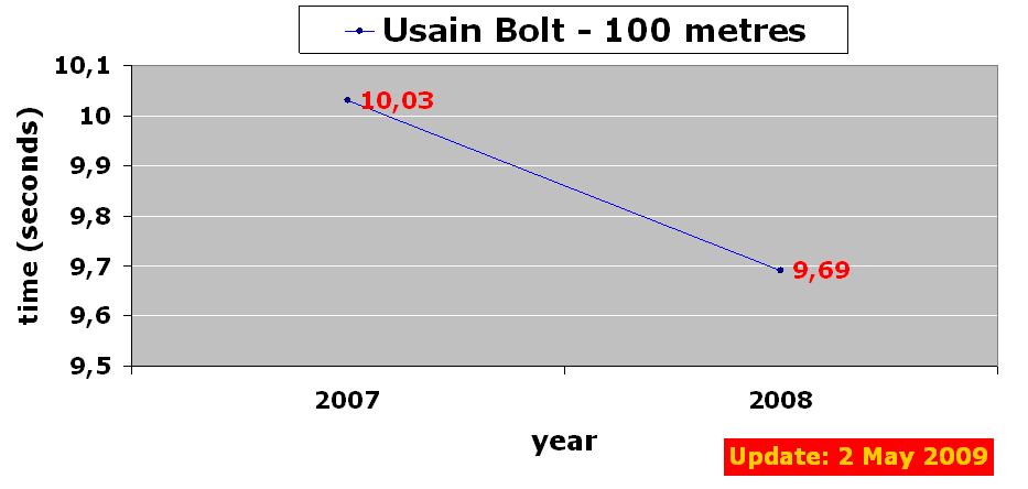 The performance curve Usain Bolt ran the 100 meters. Update: 2 May 2009